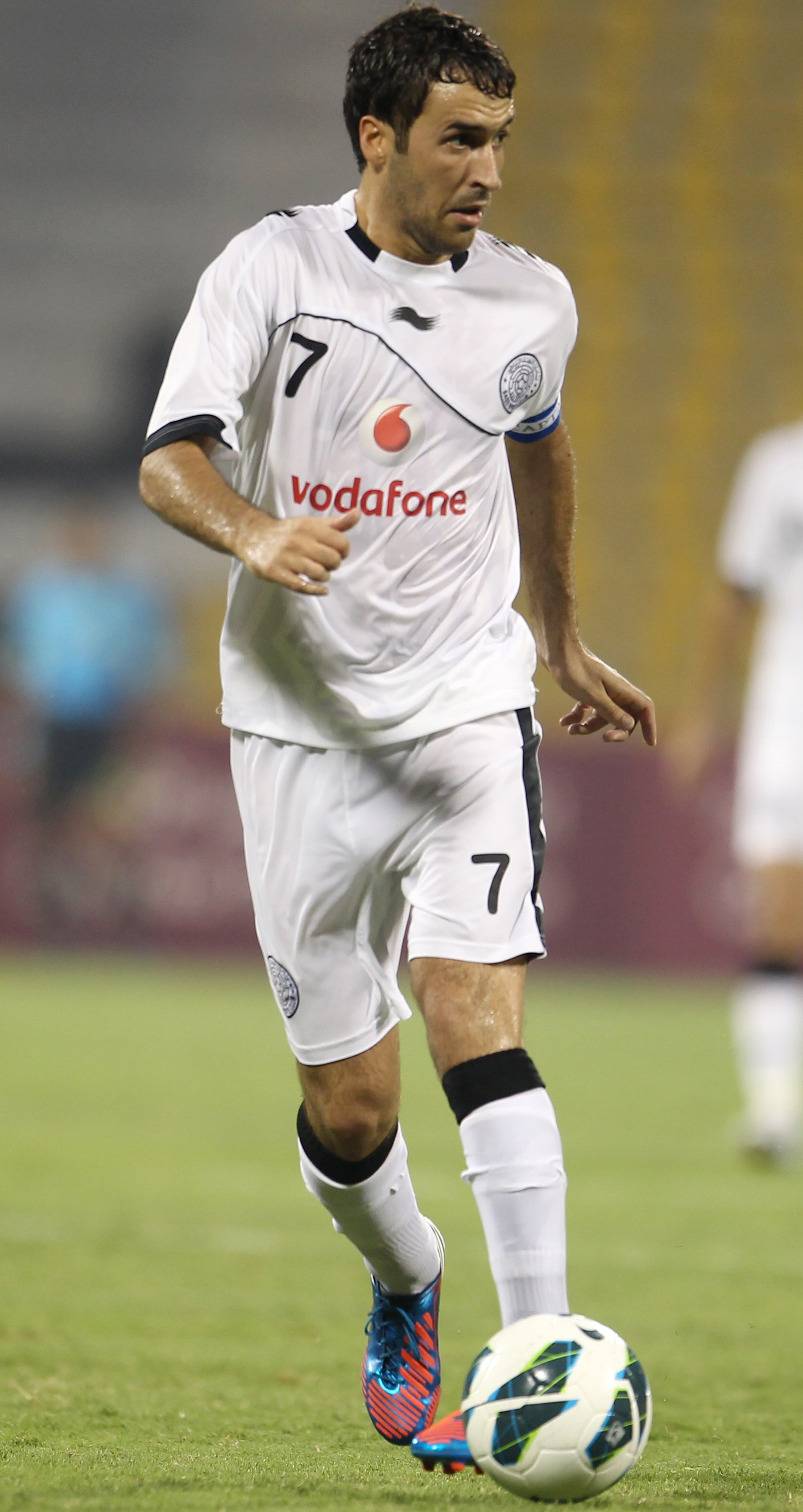 Raúl González in action during a Qatar Stars League match